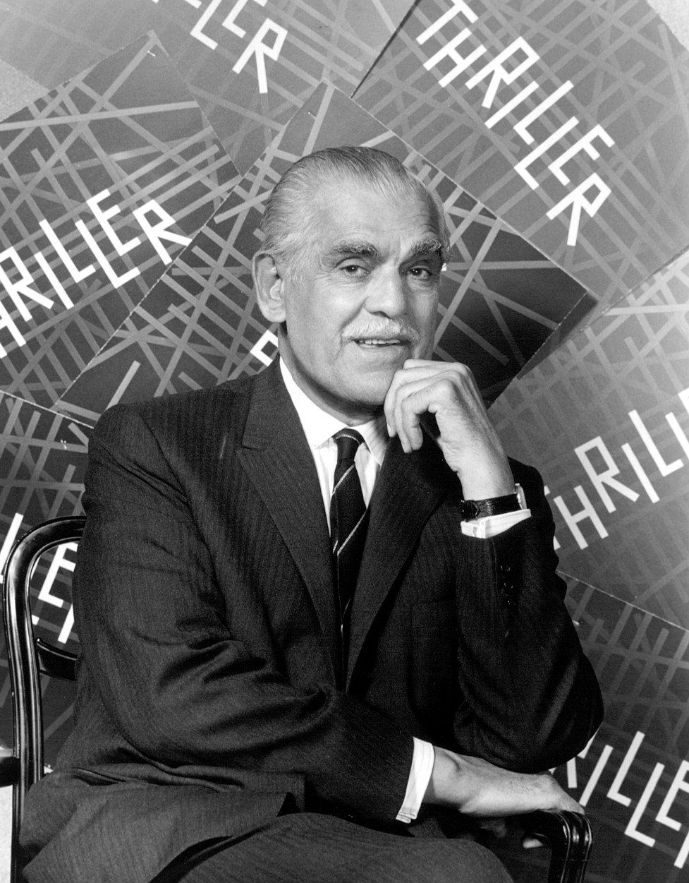 Photo of Boris Karloff from the television program Thriller.